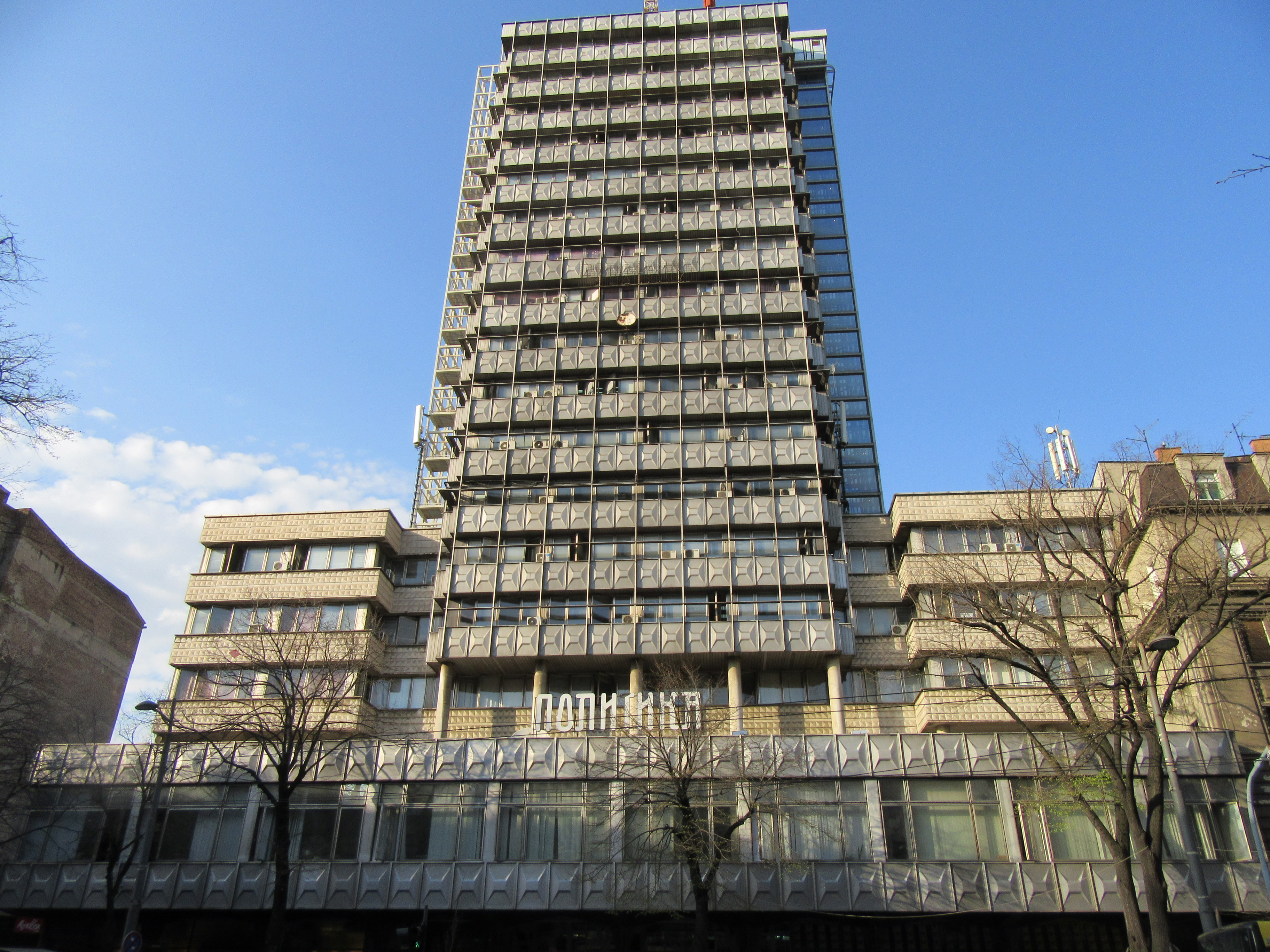 Palace Politics, Makedonska street, Belgrade, Serbia, 2019. Srpski (latinica): Palata Politika, Makedonska ulica, Beograd, Srbija, 2019.